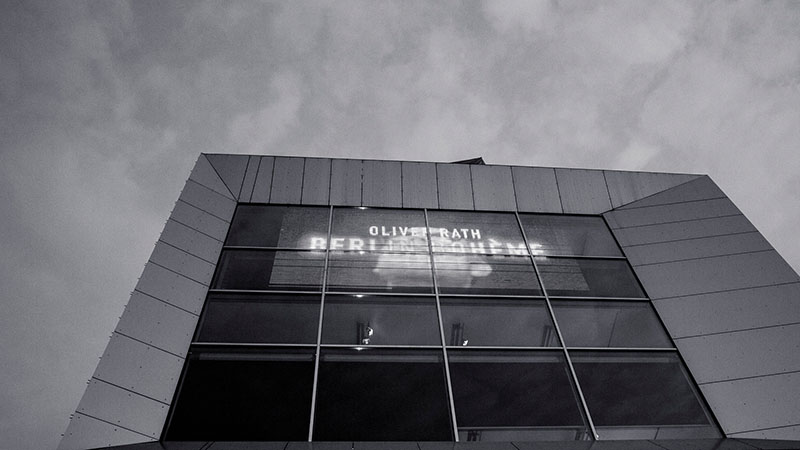 Oliver Rath Book Release "Berlin Boheme" Show Humboldt Box Berlin